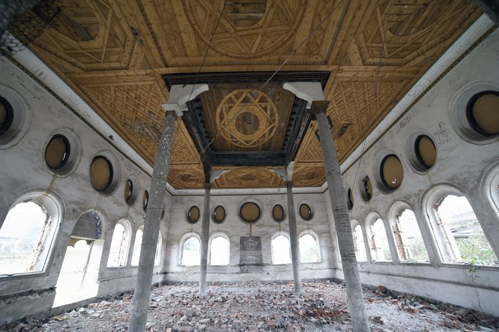 Bulgaria: Samokov Synagogues' interior